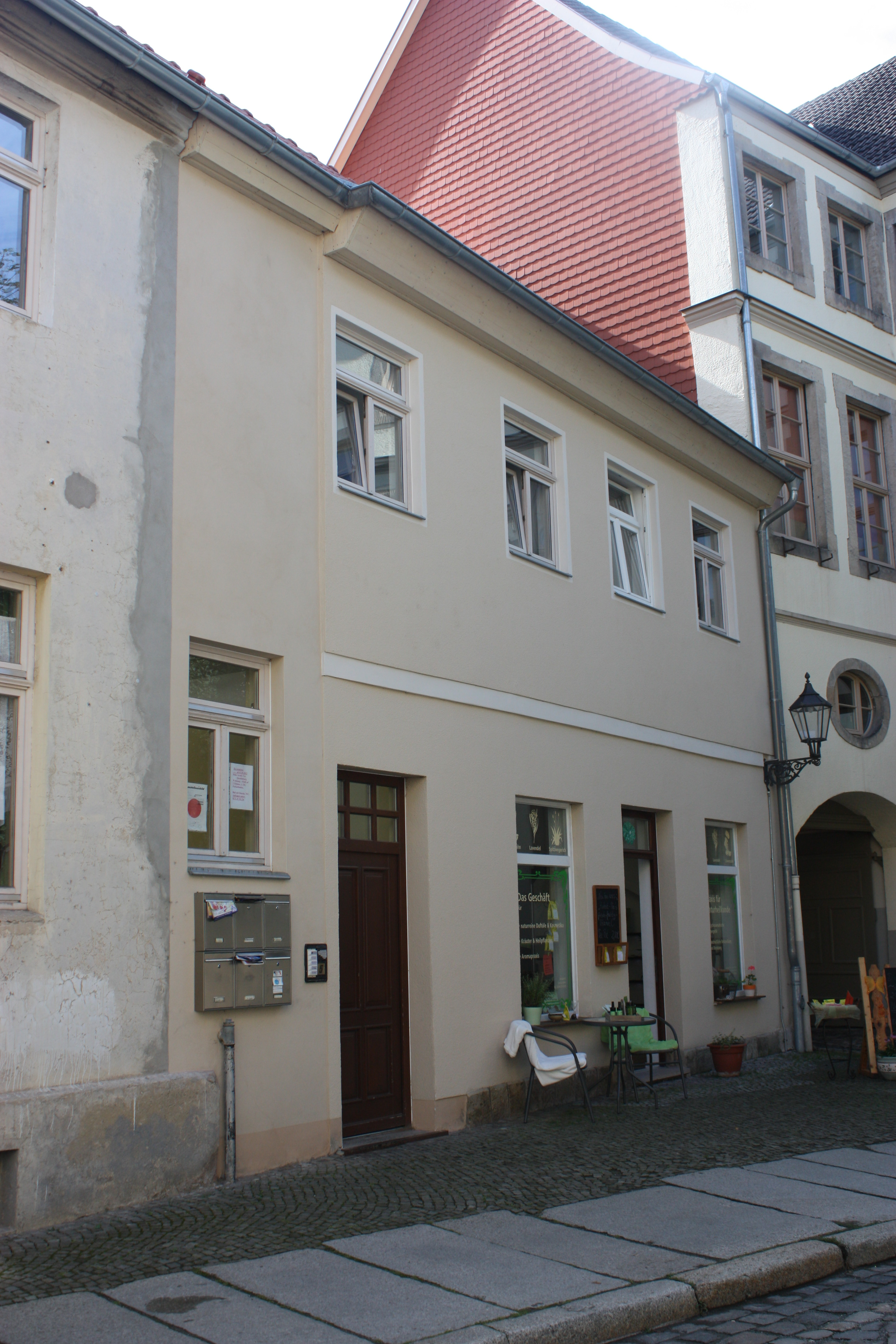 This is a photograph of an architectural monument.It is on the list of cultural monuments of Quedlinburg Hohe Straße 05